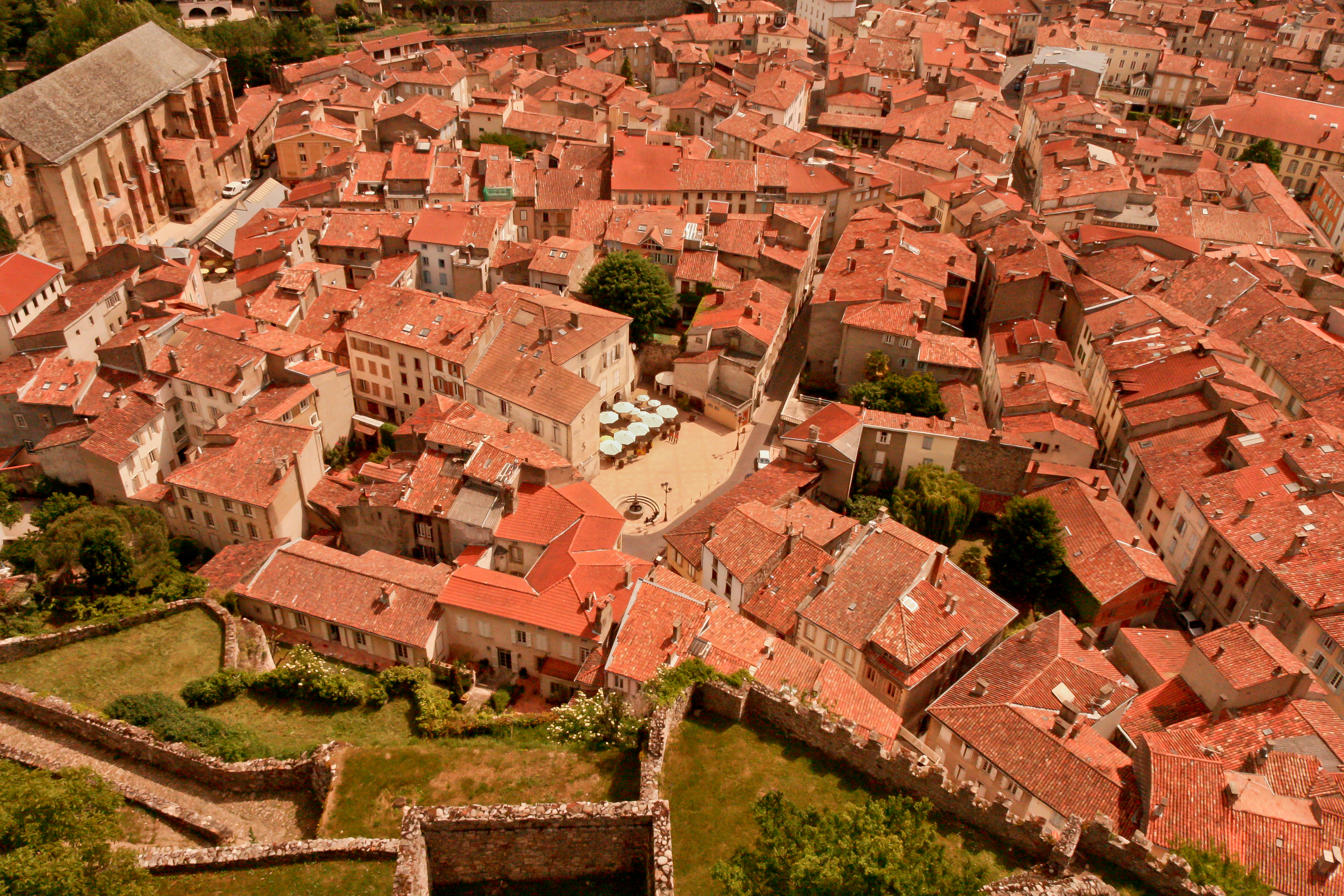 Vista de Foix de del Castell. Ariège. França